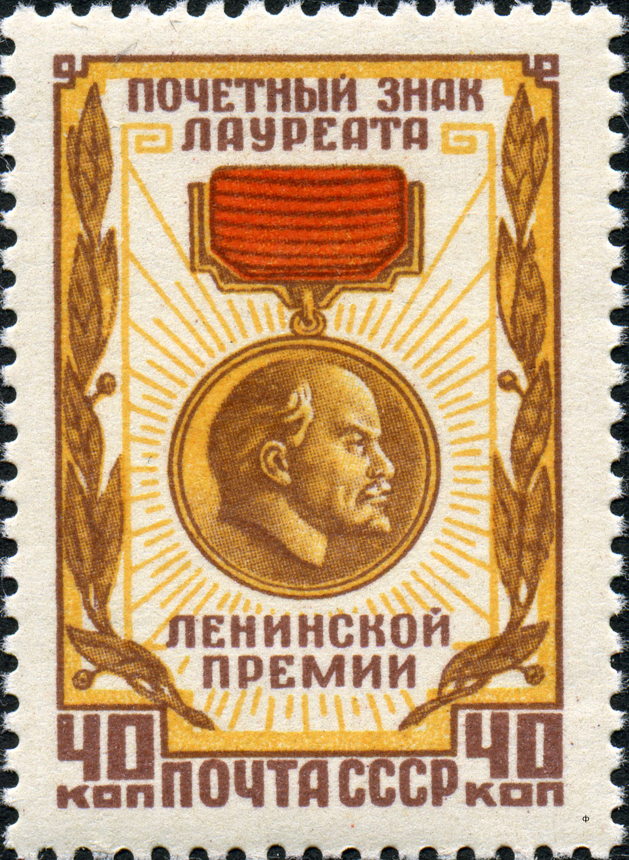 A USSR stamp, Awards of the Soviet Union